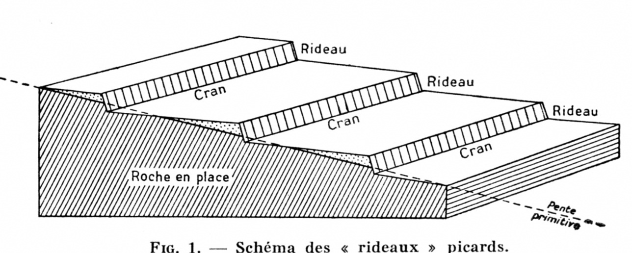 Linchet in Picardie (Bray)